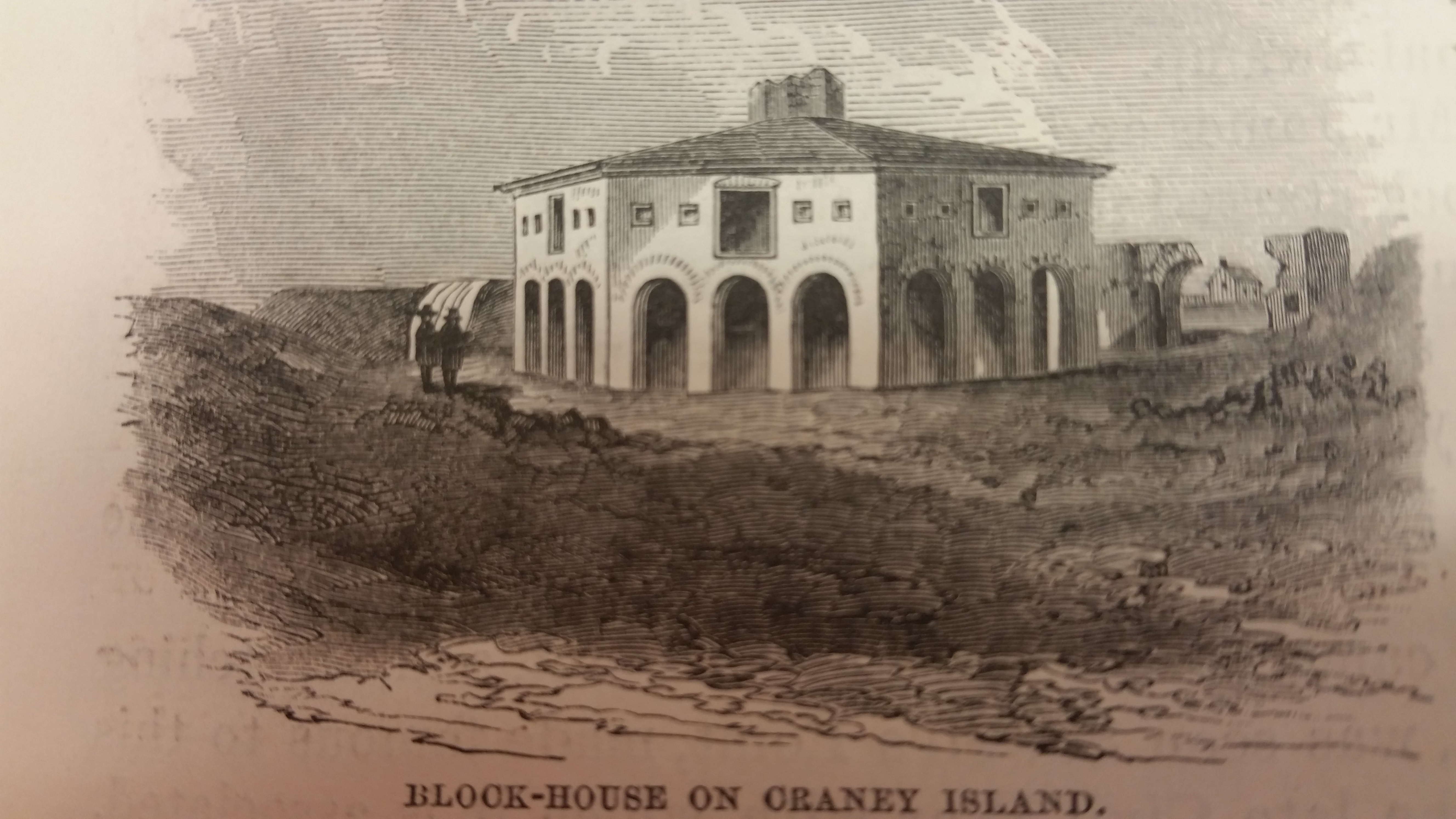 Craney